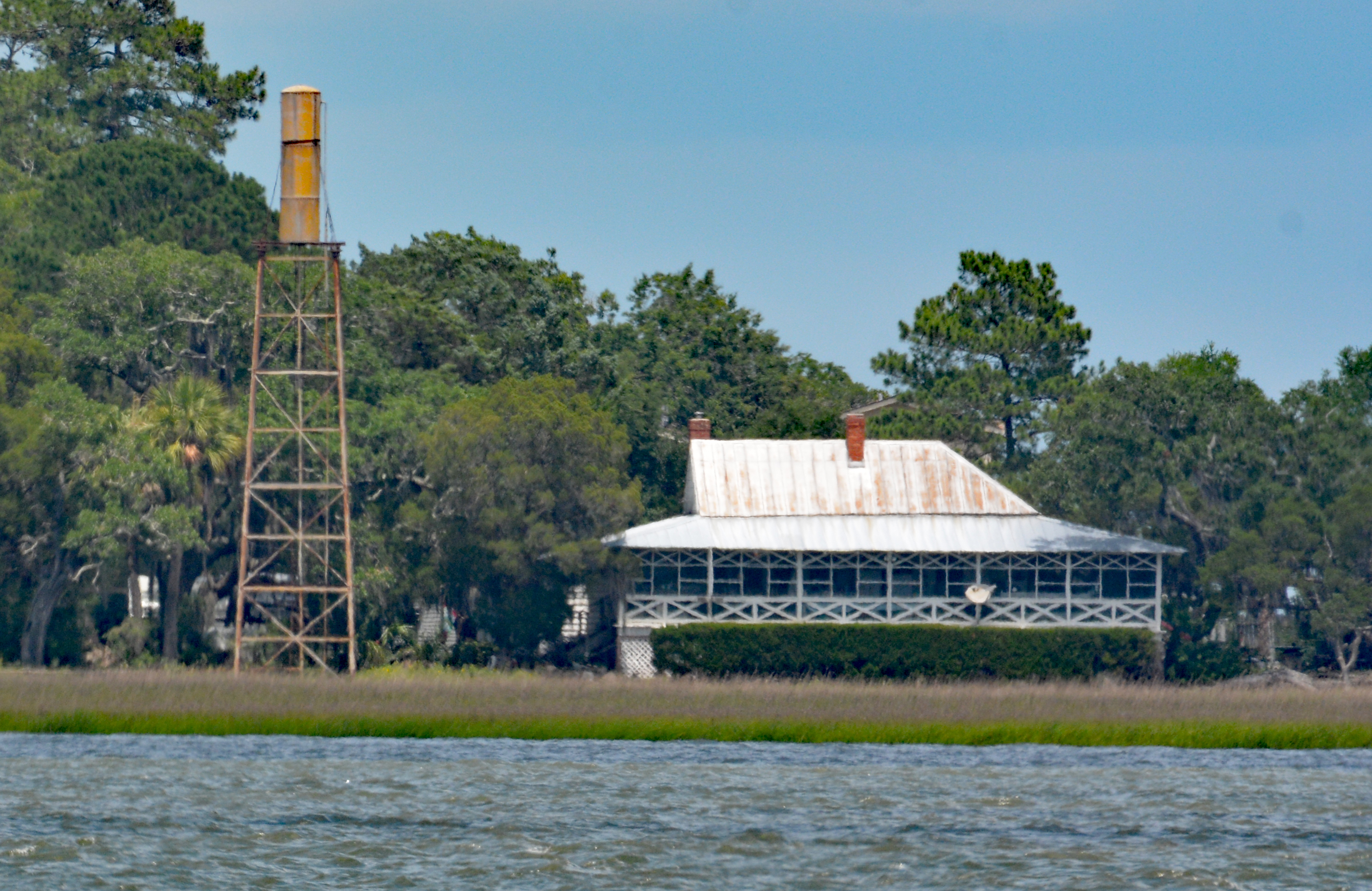 Eureka Club-Farr's Point on Wilmington Island in Chatham County, Georgia, U.S. (Taken from 1.8 kilometers away.)